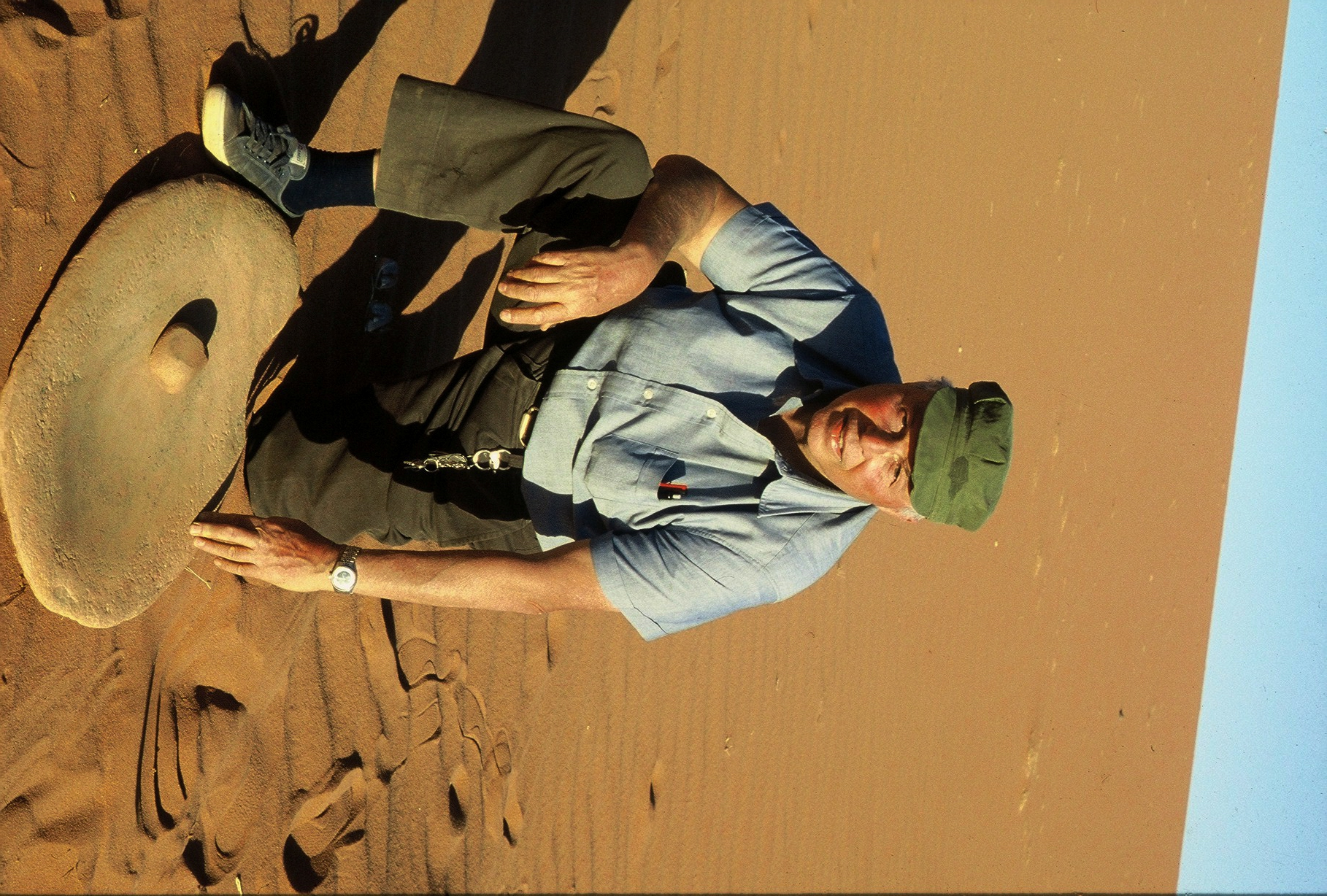 The Italian doctor and art collector Alessandro Passaré during one of his trips to Africa.